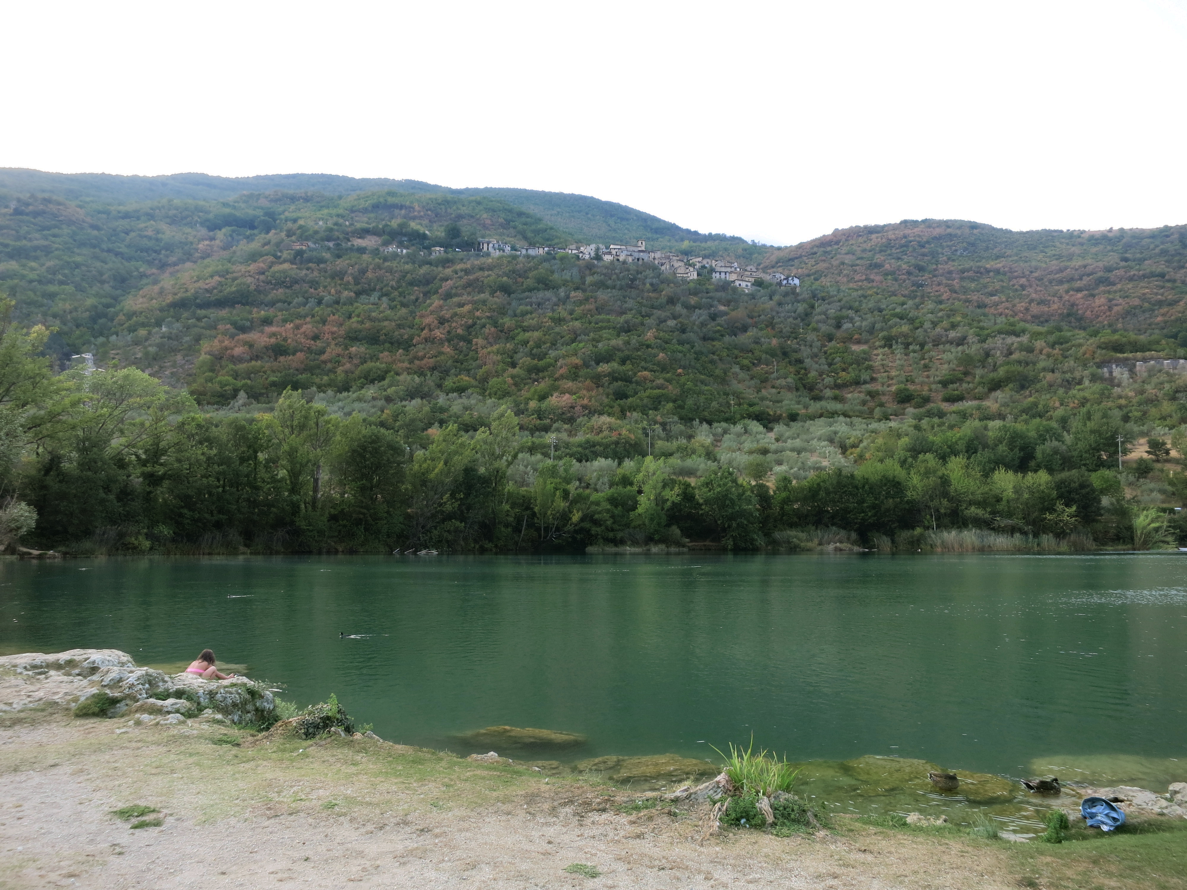 Lake of Paterno or Lake of Cutilia - province of Rieti, central Italy